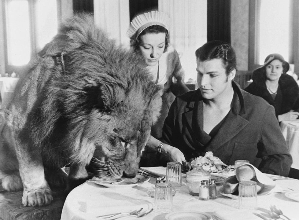 Buster Crabbe, famous actor and american tamer, lunch with Jack, one of his lions and partner in his new film, in a Hollywood restaurant on February 6, 1933 in Hollywood, California.